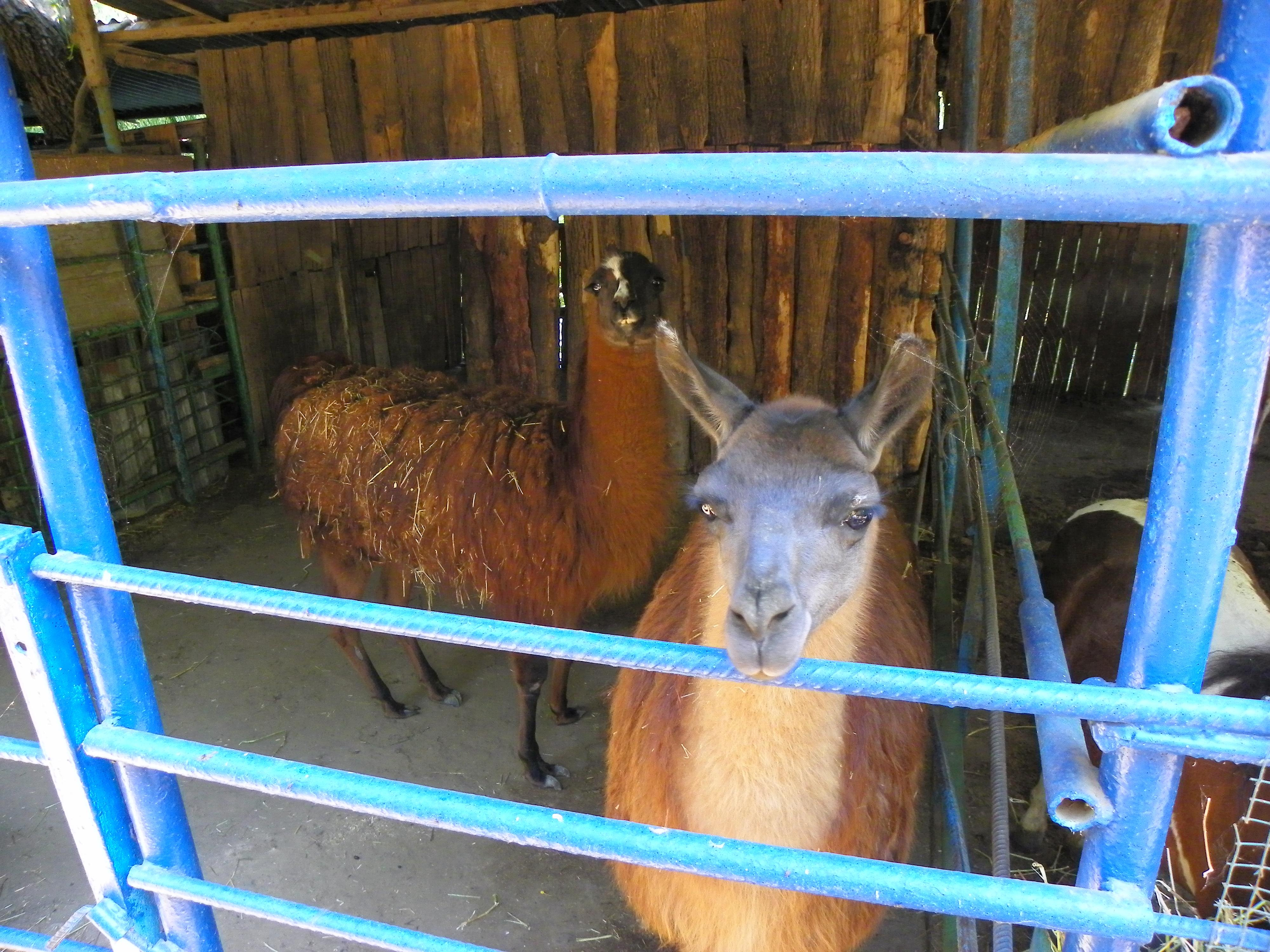 At the zoo in Prydorozhne village, Donetsk region, Ukraine.